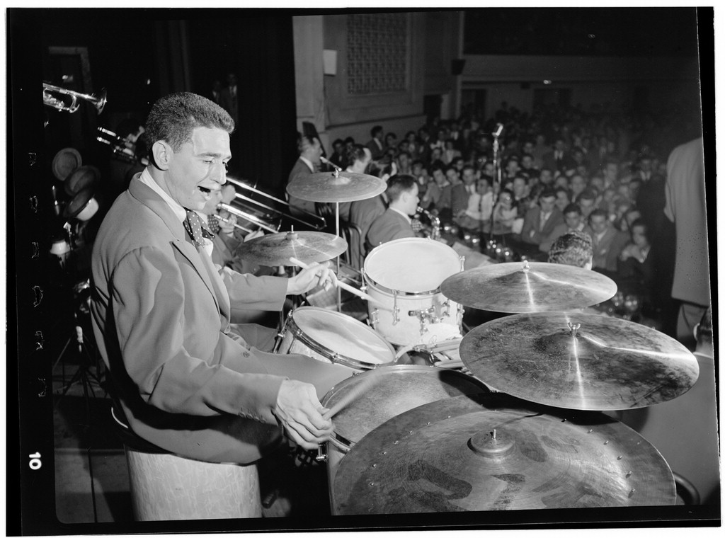 Shelly Manne. Photography by William P. Gottlieb